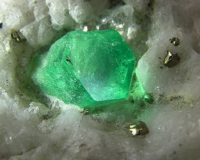 Beryl (Var.: Emerald) Locality: Coscuez Mine (Cosquez Mine), Muzo, Vasquez-Yacopí Mining District, Boyacá Department, Colombia (Locality at ) Size: 9.9 x 7.9 x 7.2 cm. This is a superb GEM EMERALD still embedded in matrix, in the pocket in which it formed. The emerald has fine bright grassy green color and is highly gemmy and transparent! It measures one cm both across the termination and in height. You can see some little pyrites around it on the calcite matrix.